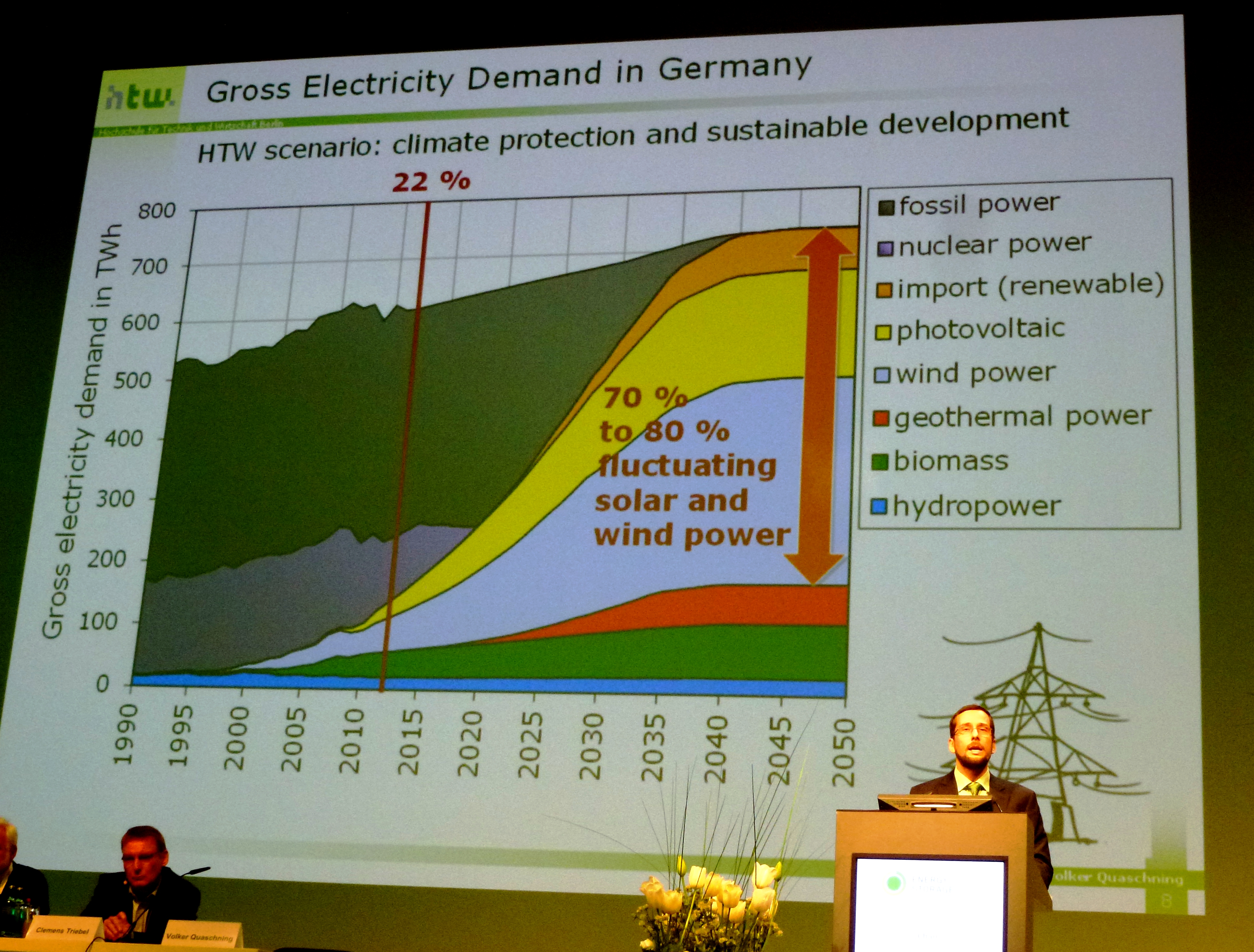 Volker Quaschning at the Energy Storage Summit Düsseldorf